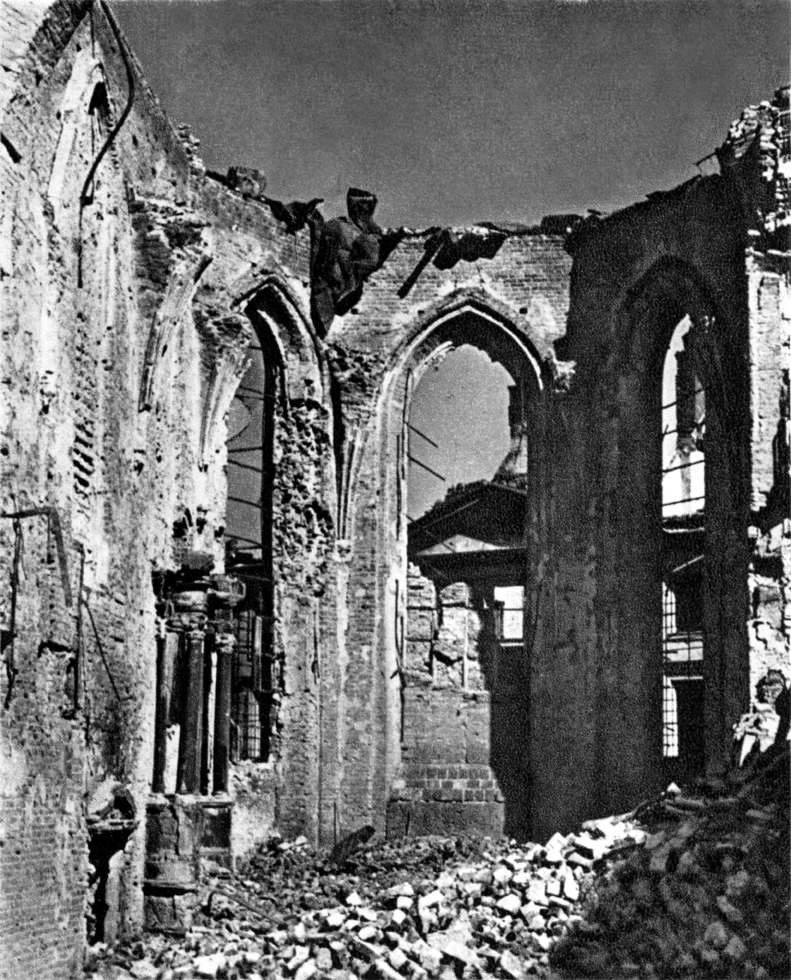 Ruins of the St. John Cathedral, Warsaw, 1945